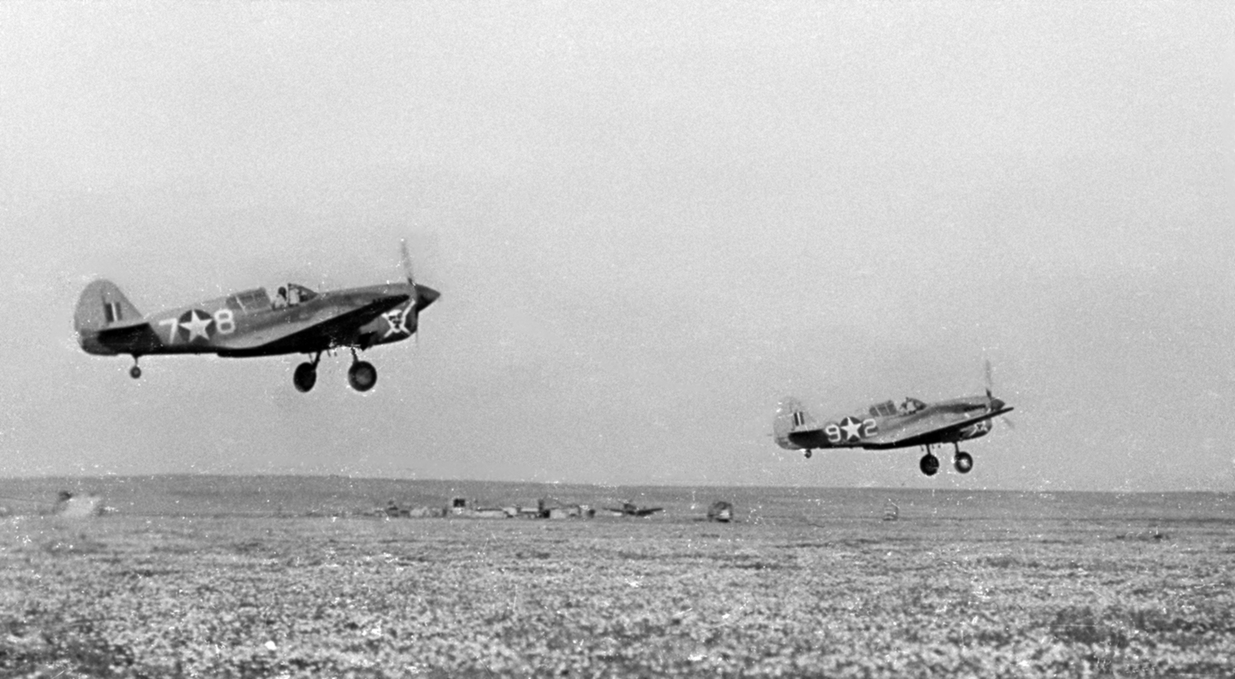 Two U.S. Army Air Forces Curtiss P-40F Warhawk fighters of the 66th Fighter Squadron take off on a mission over North Africa. The 66th FS was assigned to the U.S. Army Middle East Force in Egypt in July 1942, becoming part of IX Fighter Command. It took part in the British Western Desert Campaign from the Battle of El Alamein to the Axis defeat in Tunisia in May 1943.